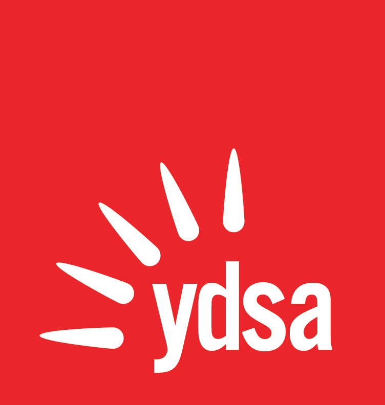 Logo of the Young Democratic Socialists of America since 2017